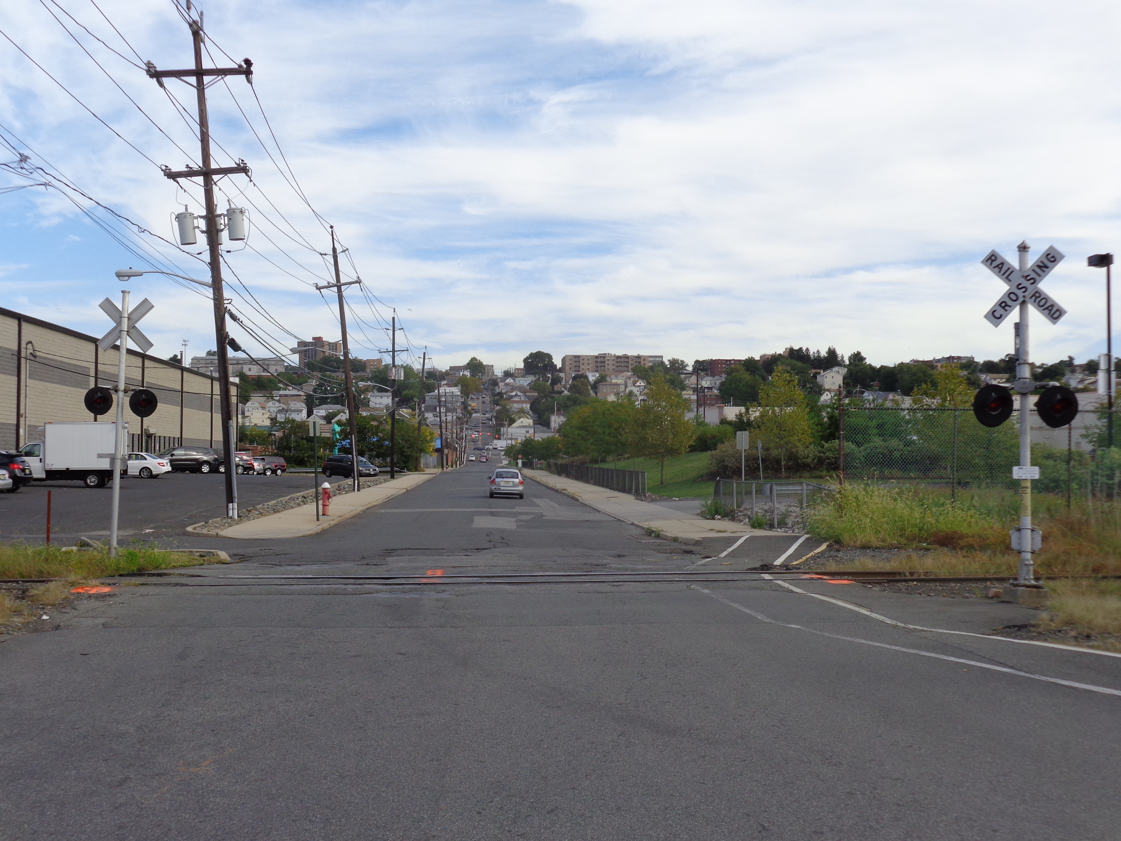 Northern Branch ROW at 91st Street North Bergen site of planned HBLR station looking east to Bergenwood Slope